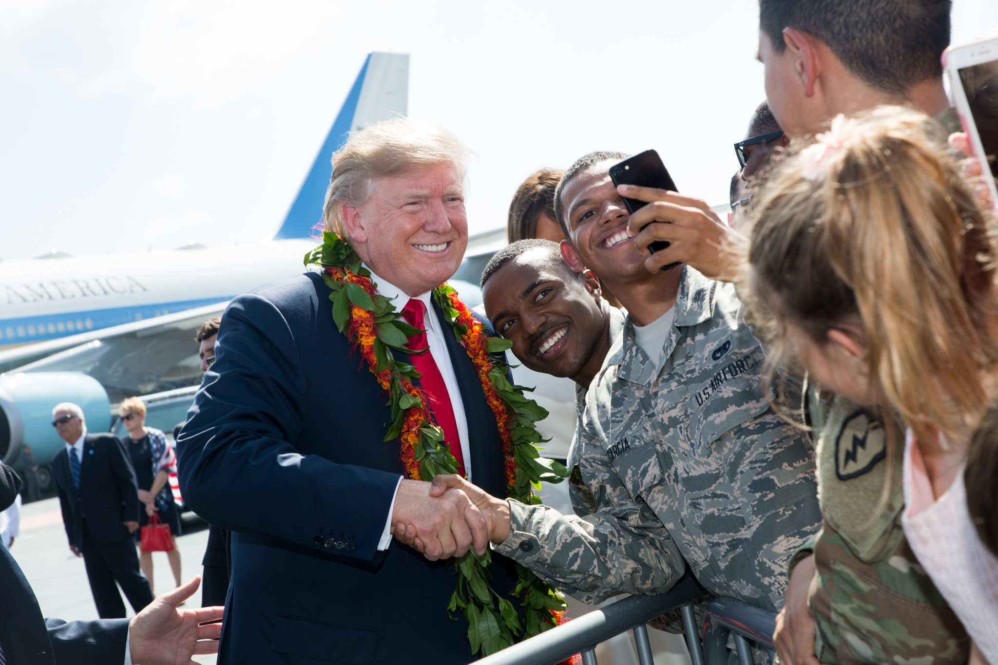 President Donald J. Trump and First Lady Melania Trump visit Hawaii | November 3, 2017 (Official White House Photo by Shealah Craighead)